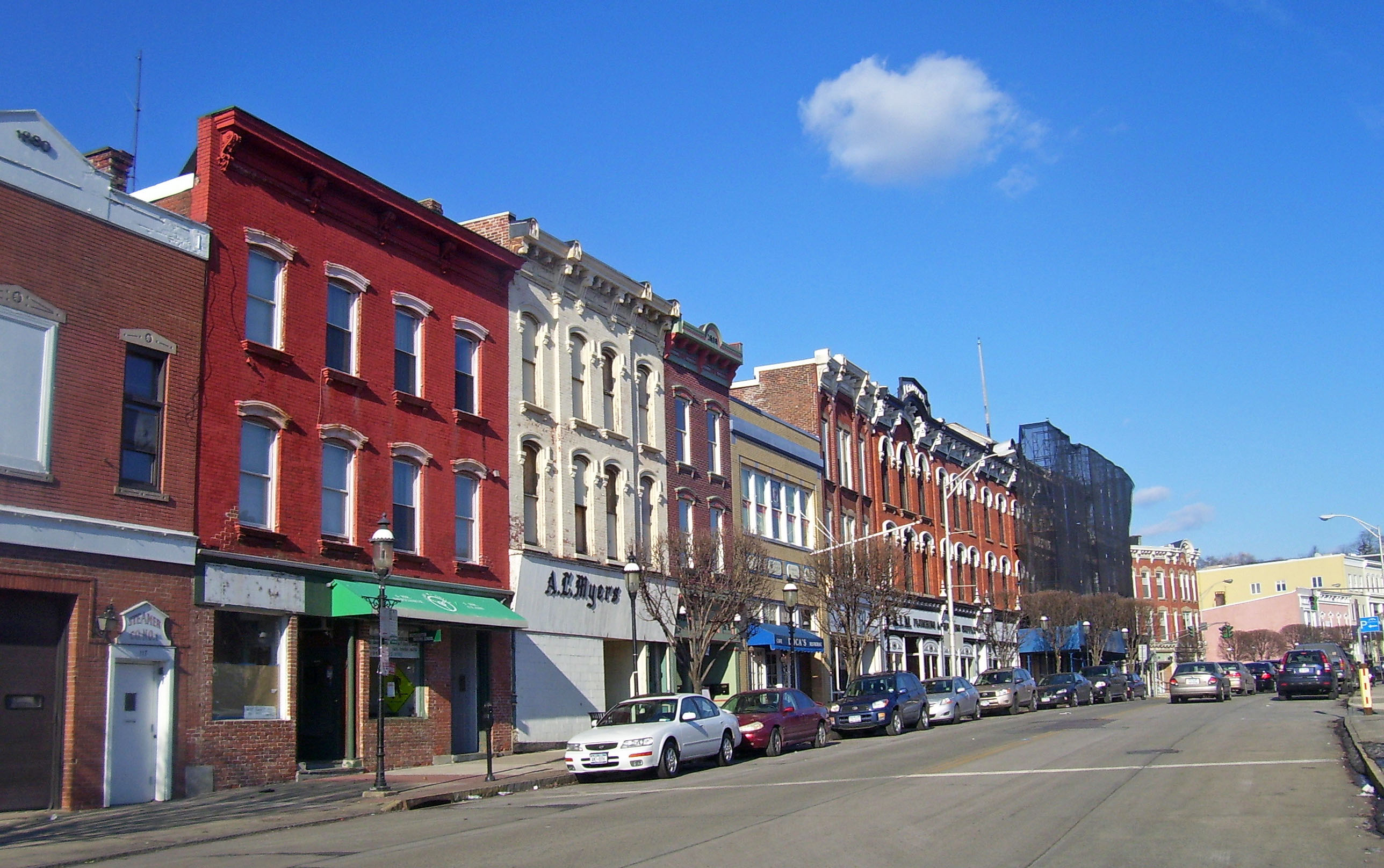 Commercial buildings between 117 and 139 Main Street in the Downtown Ossining, NY, USA, Historic District. In the rear can be seen the redevelopment of the former Ossining National Bank building, and the empty lots at 147–55 Main, themselves awaiting redevelopment.